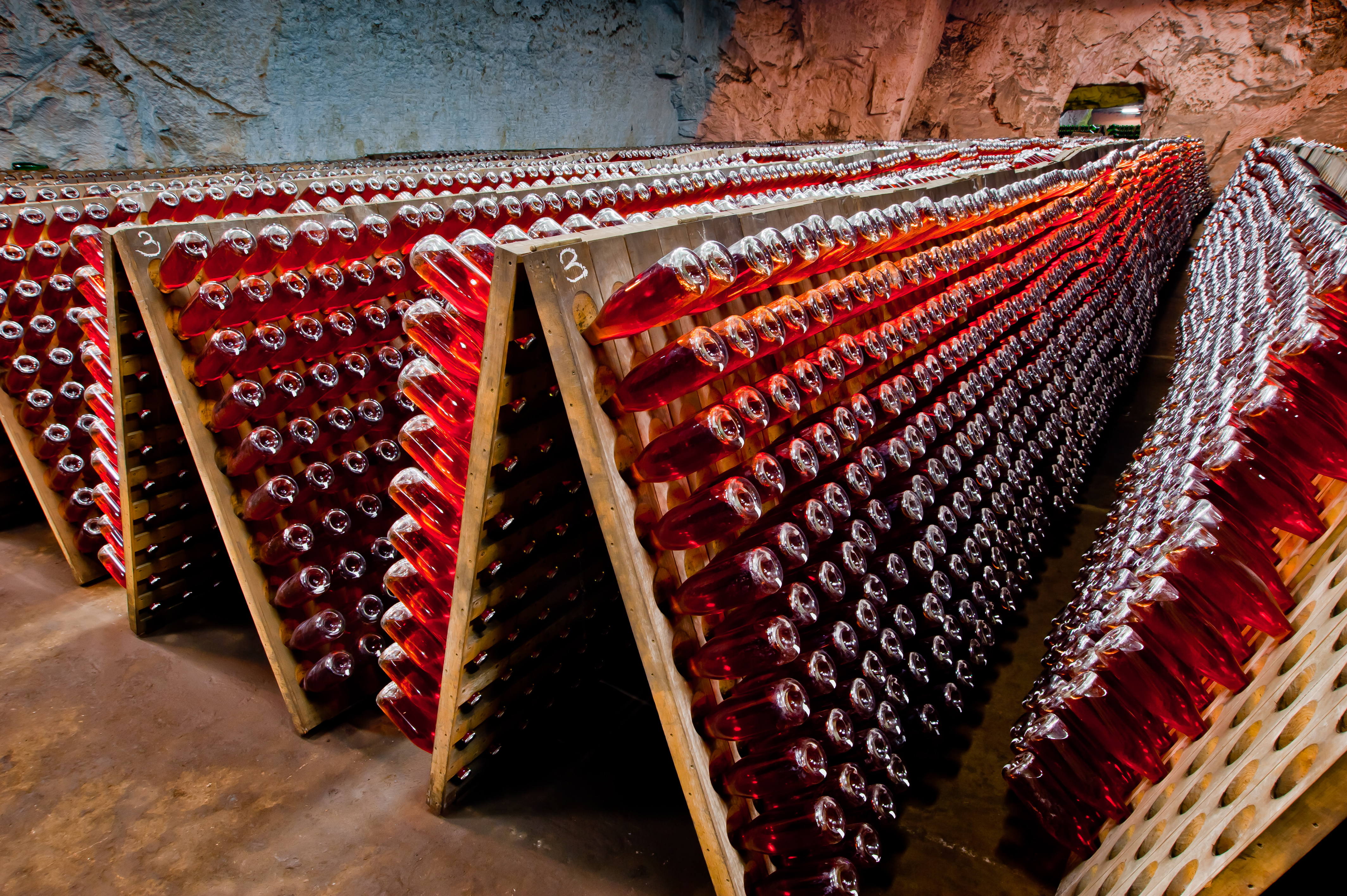 Own production of sparkling wine Artwinery